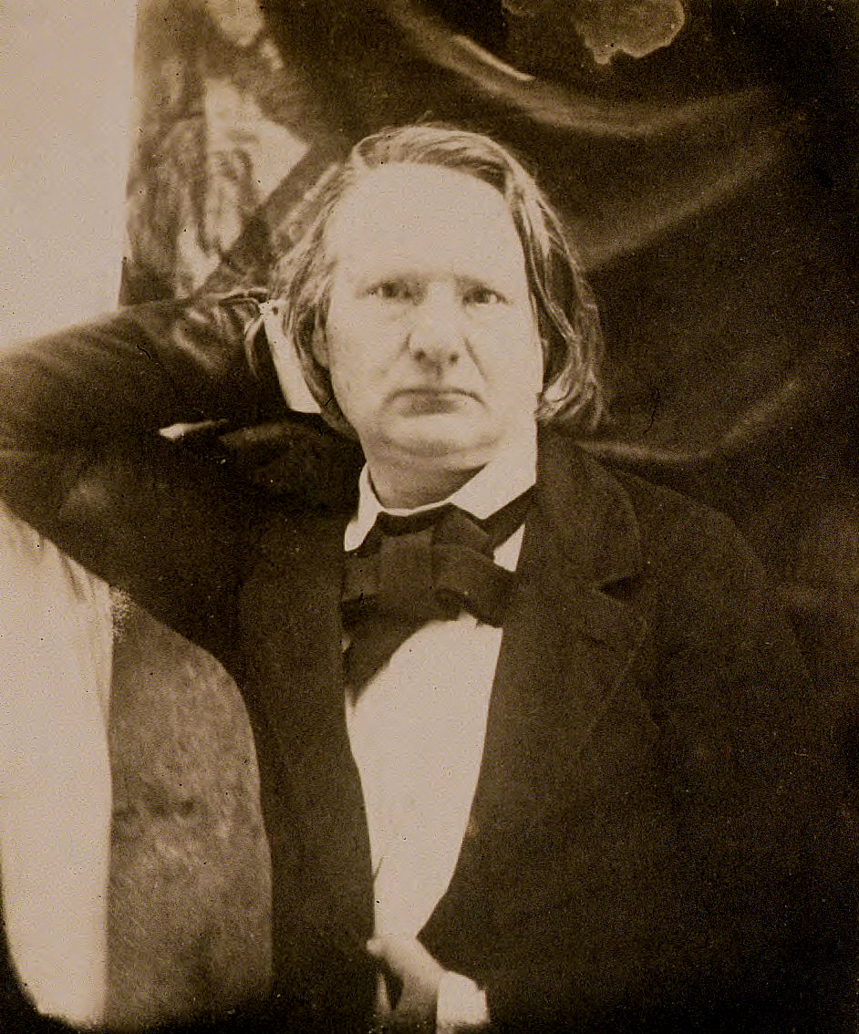 Portrait of Victor Hugo.